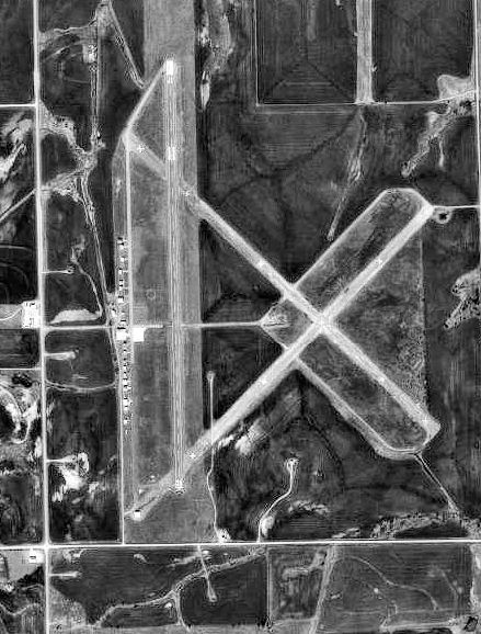 USGS orthophoto of Perry Municipal Airport, Oklahoma